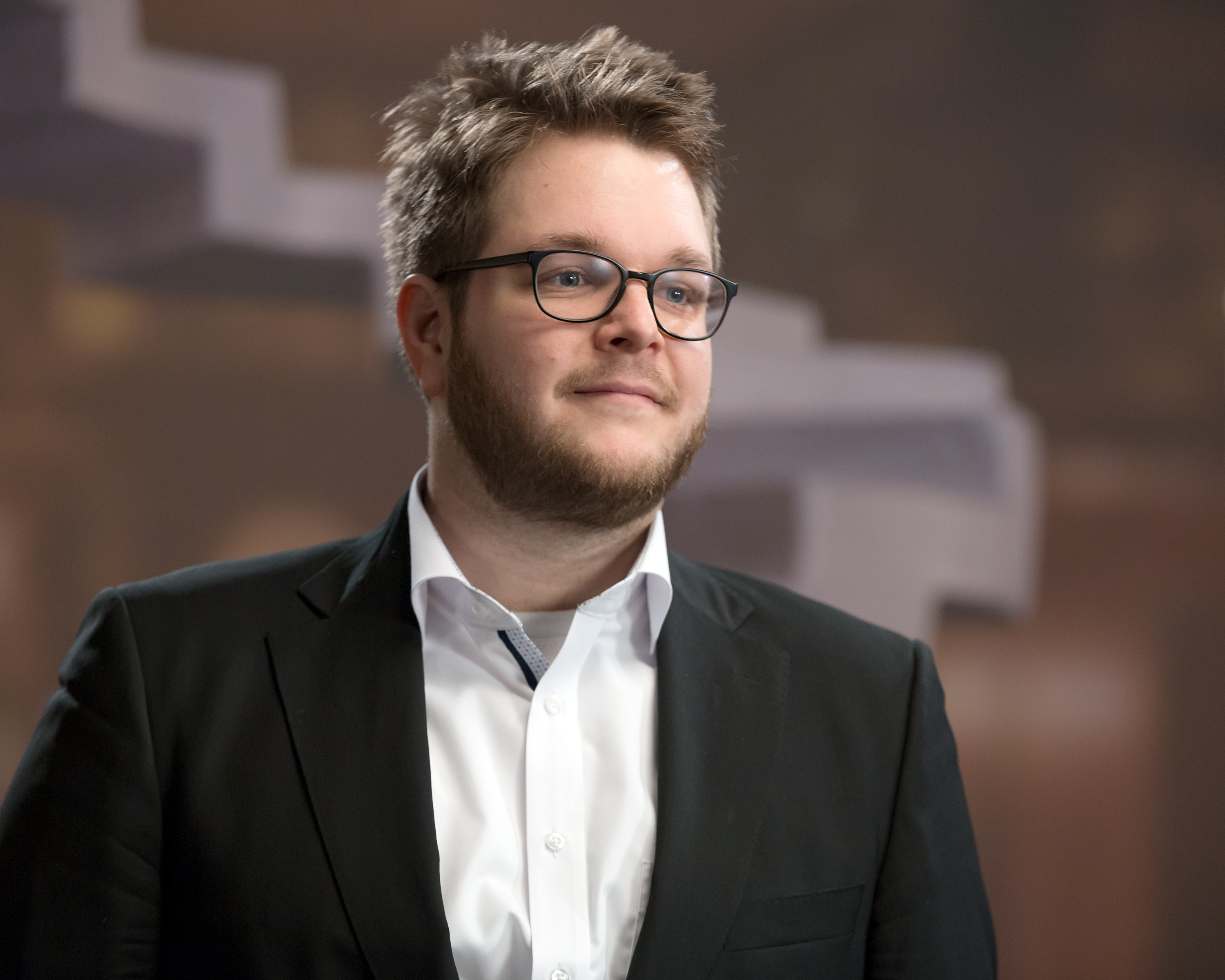 Paul Gallister, composer of the film score for Center of my World, at the Austrian Film Awards 2017 (Rathaus, Vienna,Austria).